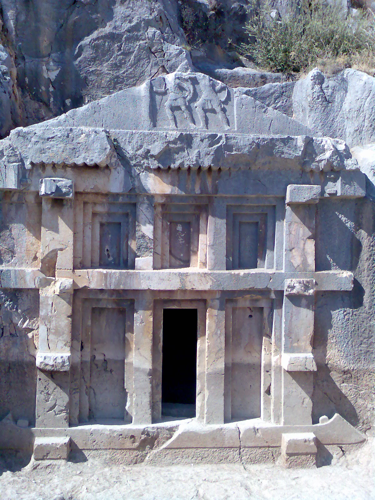 Myra. Lycian tomb. A fragment of a bas-relief which was dedicated to the deceased. Plundered in ancient times.